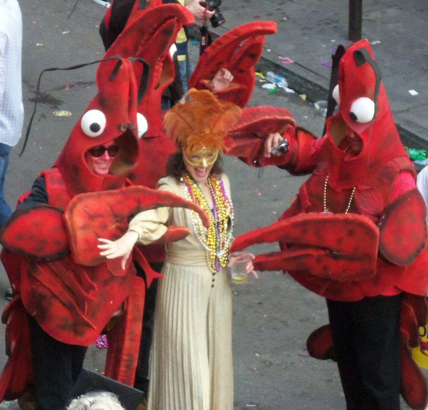 Mardi Gras revelry in New Orleans